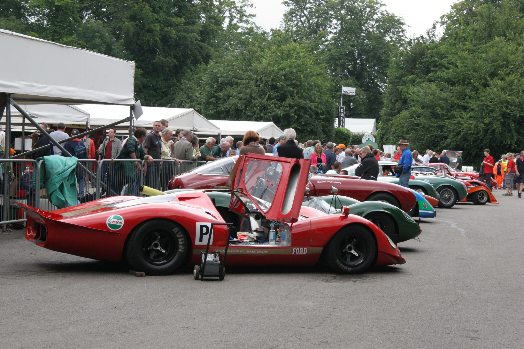 A Ford P68 F3L at the Goodwood Festival of Speed